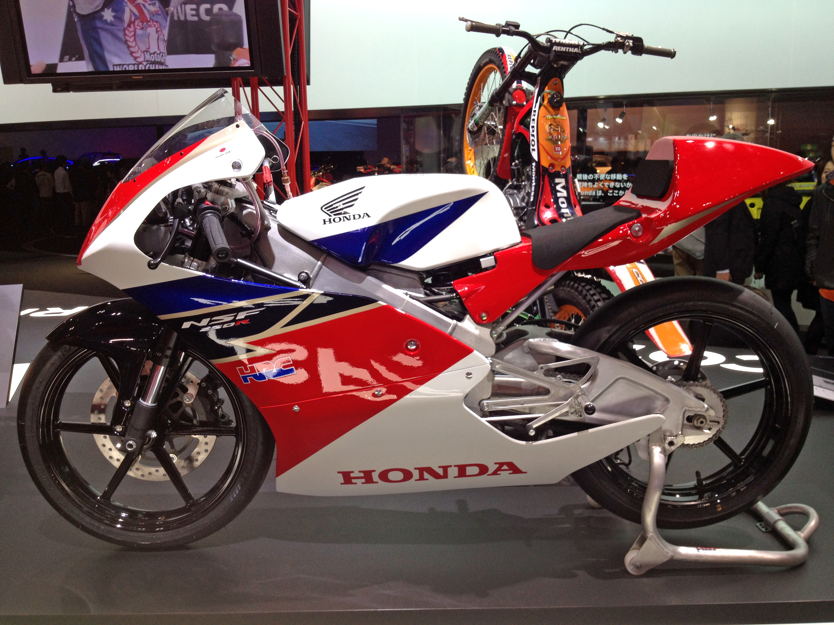 Honda NSF250R, Tokyo Motor Show 2011.